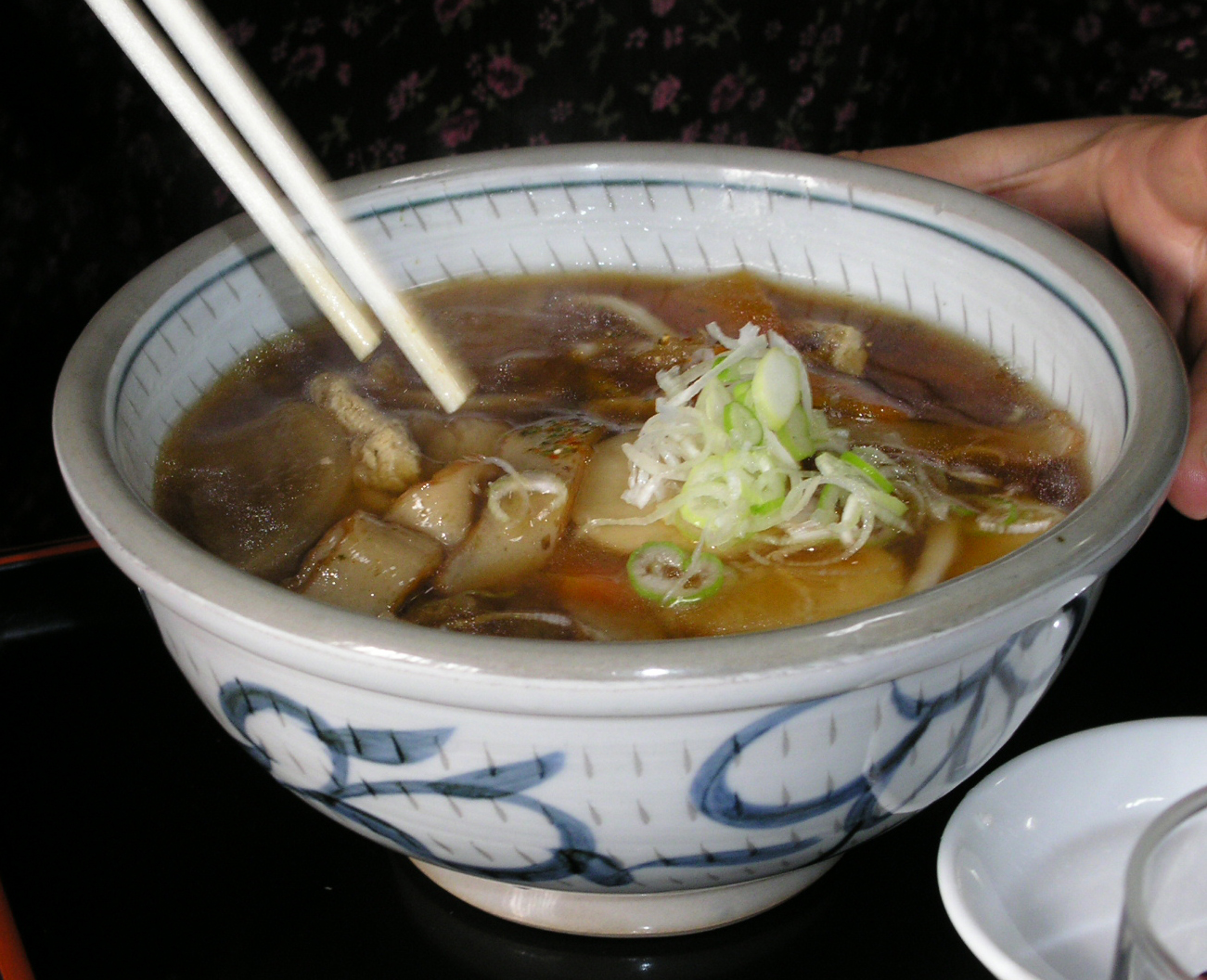 Kamo-nanban (a kind of Japanese noodle)